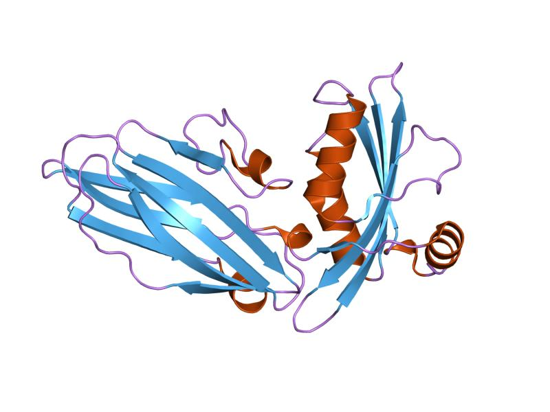 Cartoon representation of the molecular structure of protein registered with 1qts code.